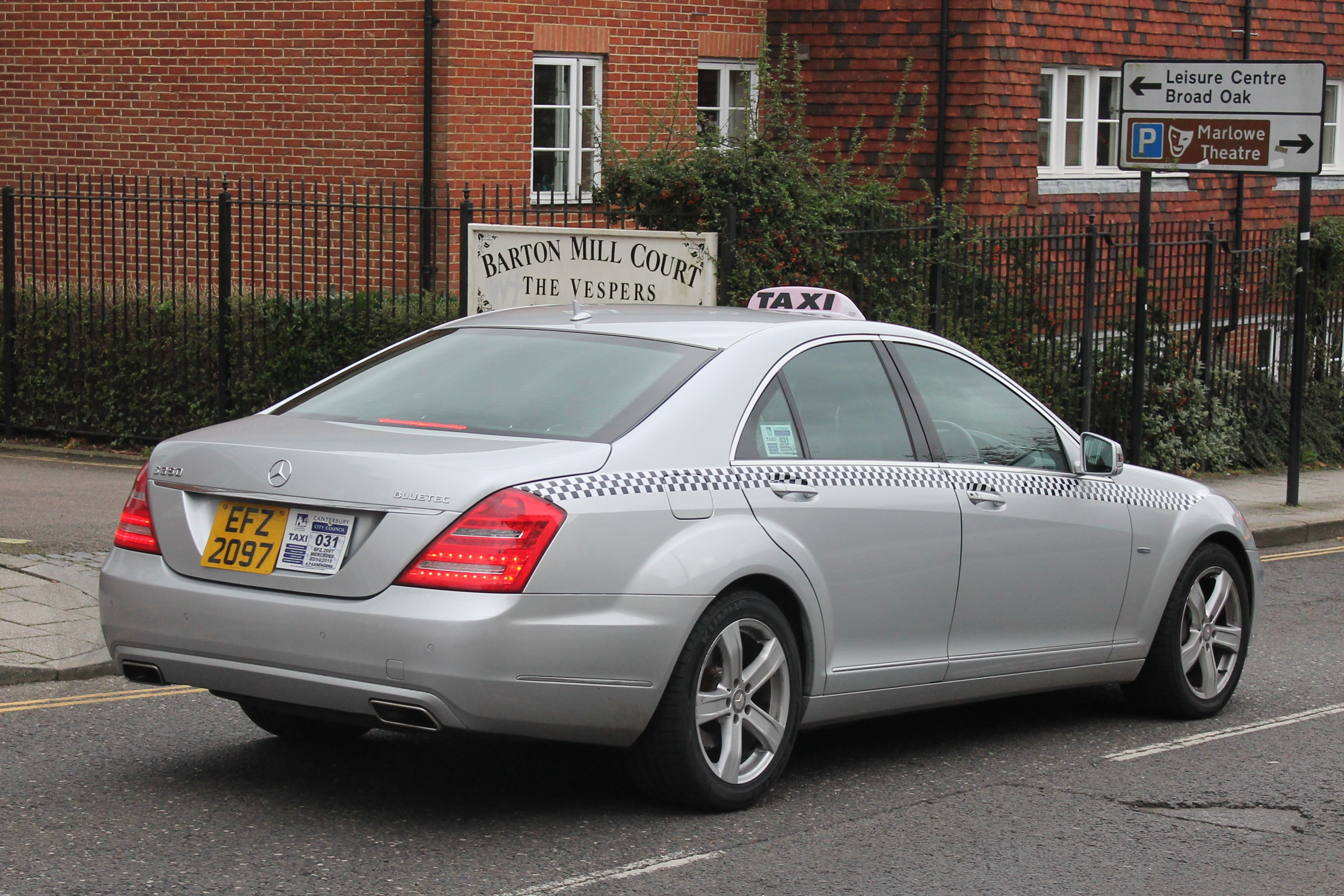 Don't worry, I haven't gone crazy and started taking pictures of modern cars! I like the idea of one of these as a taxi! First S Class I've seen in the UK in taxi service. Skodas everywhere here. This one has the 3 litre V6 turbodiesel with 254BHP and 0-62 in 7.1 seconds. This taxi driver must be doing alright, as these cost £58,000 when new!